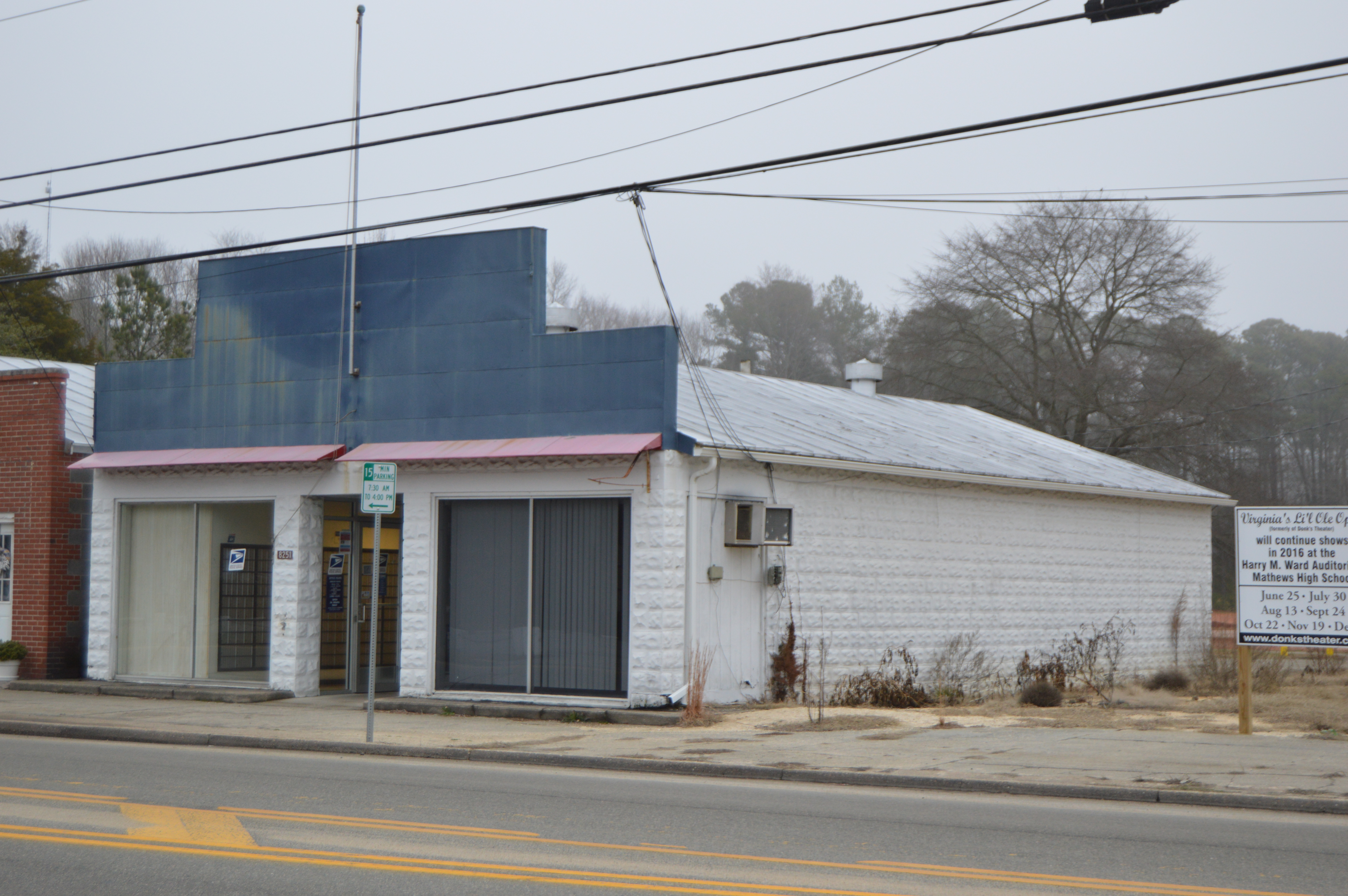 Front and southern side of the Hudgins post office, located at 8251 State Route 198 in Hudgins, Virginia, United States.